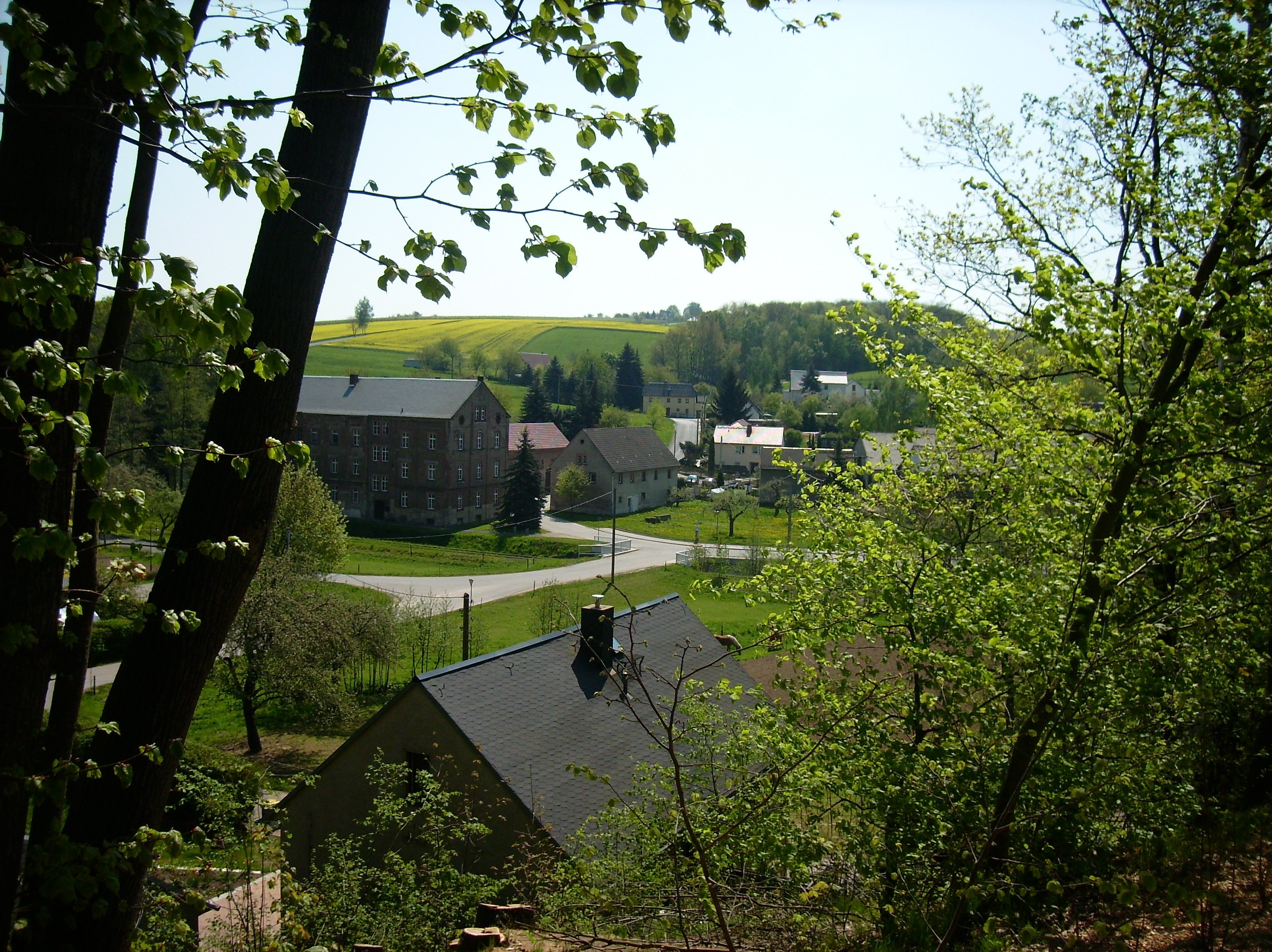 The village of Döhlen (Seelitz, Mittelsachsen district, Saxony)